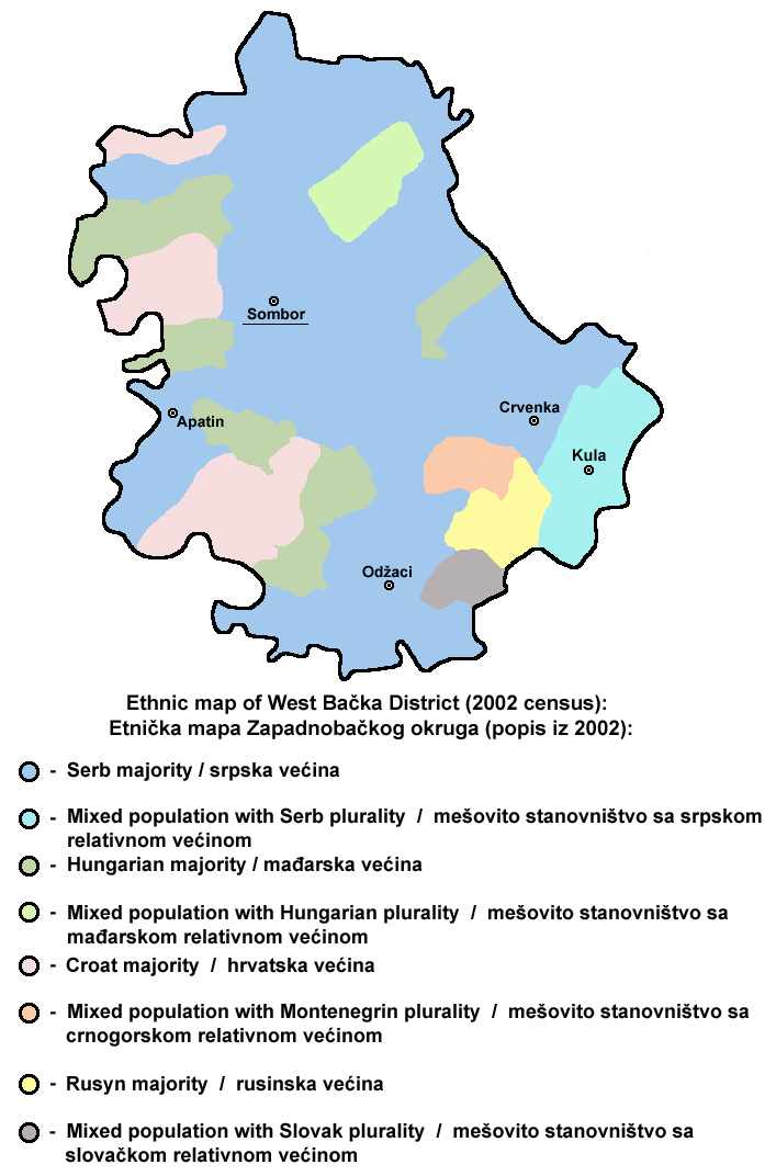 Ethnic map of West Bačka District - 2002 census (data by settlements).